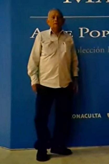 Mexican artisan Francisco Coronel at a show in Tijuana on 2016.